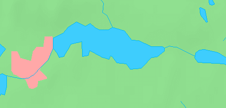 Lake Boren in Sweden. Bounding box West 15.0°, South 58.5°, East 15.4°, North 58.6°. Center at 58°33′00″N 15°12′00″E / 58.55000°N 15.20000°E.